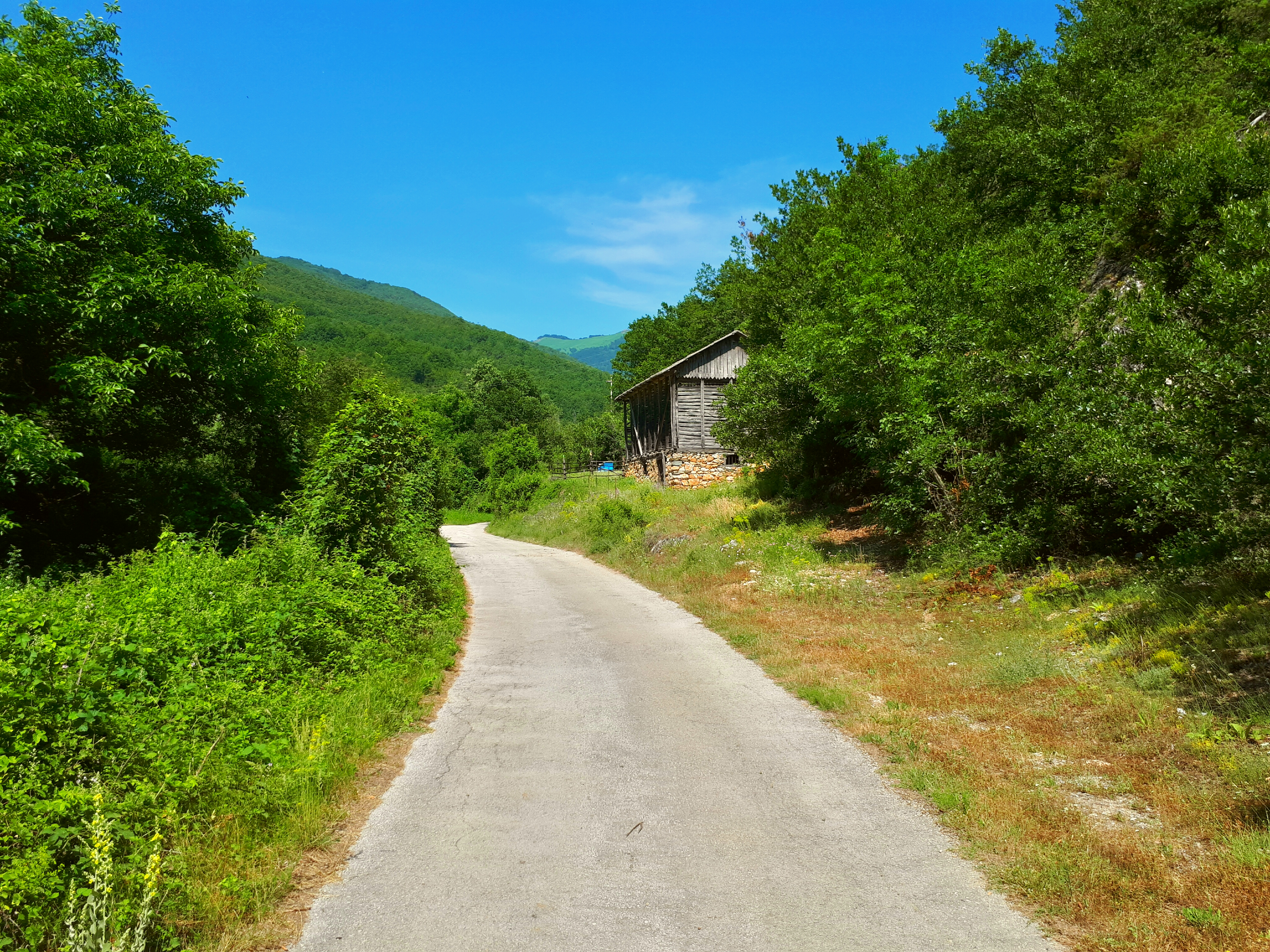 Entry in the village Slatina